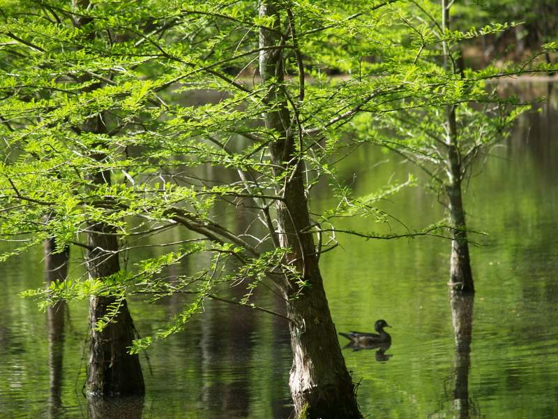 Wood duck (Aix sponsa) at South Carolina